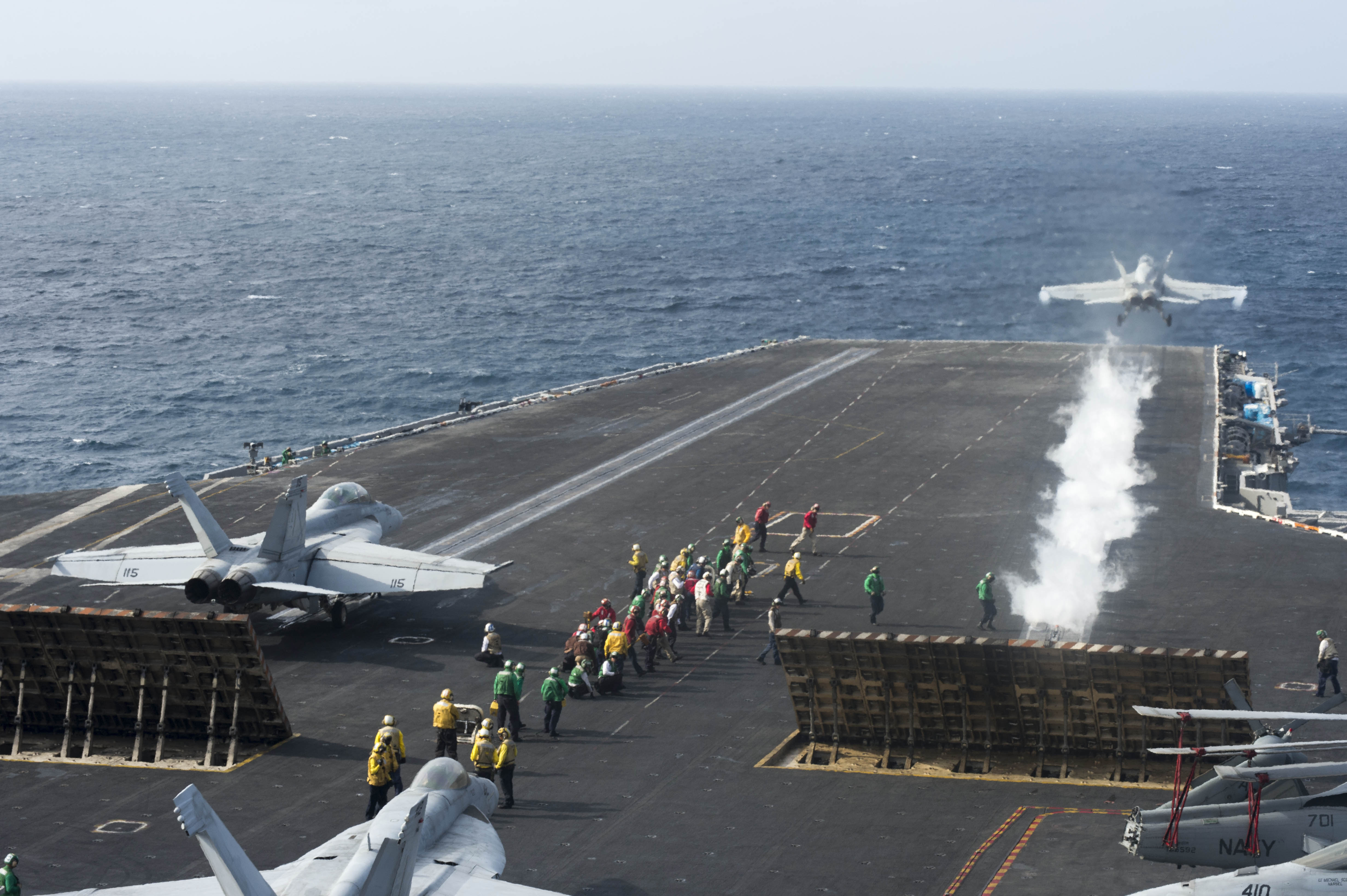 A U.S. Navy F/A-18F Super Hornet aircraft attached to Strike Fighter Squadron (VFA) 32 launches from the flight deck of the aircraft carrier USS Harry S. Truman (CVN 75) in support of Operation Enduring Freedom as a second Super Hornet waits to launch in the Arabian Sea Aug. 27, 2013. The Harry S. Truman was deployed supporting maritime security operations and theater security cooperation efforts in the U.S. 5th Fleet area of responsibility.